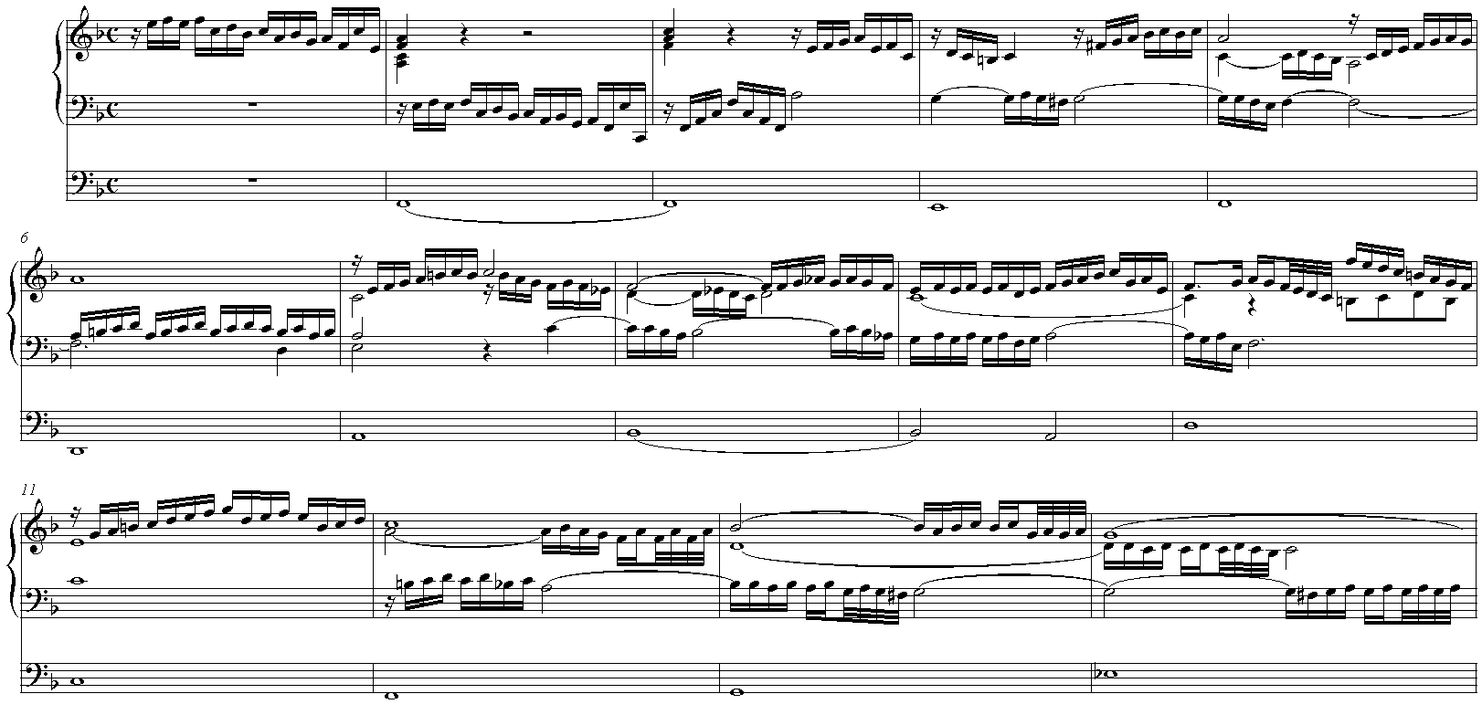 Musical quotation from Prelude in F major, BuxWV 145, by Dieterich Buxtehude (c1637–1707). Made using Sibelius 4 by Jashiin. The music quoted is in the public domain, and the image is hereby released into the public domain by Jashiin.